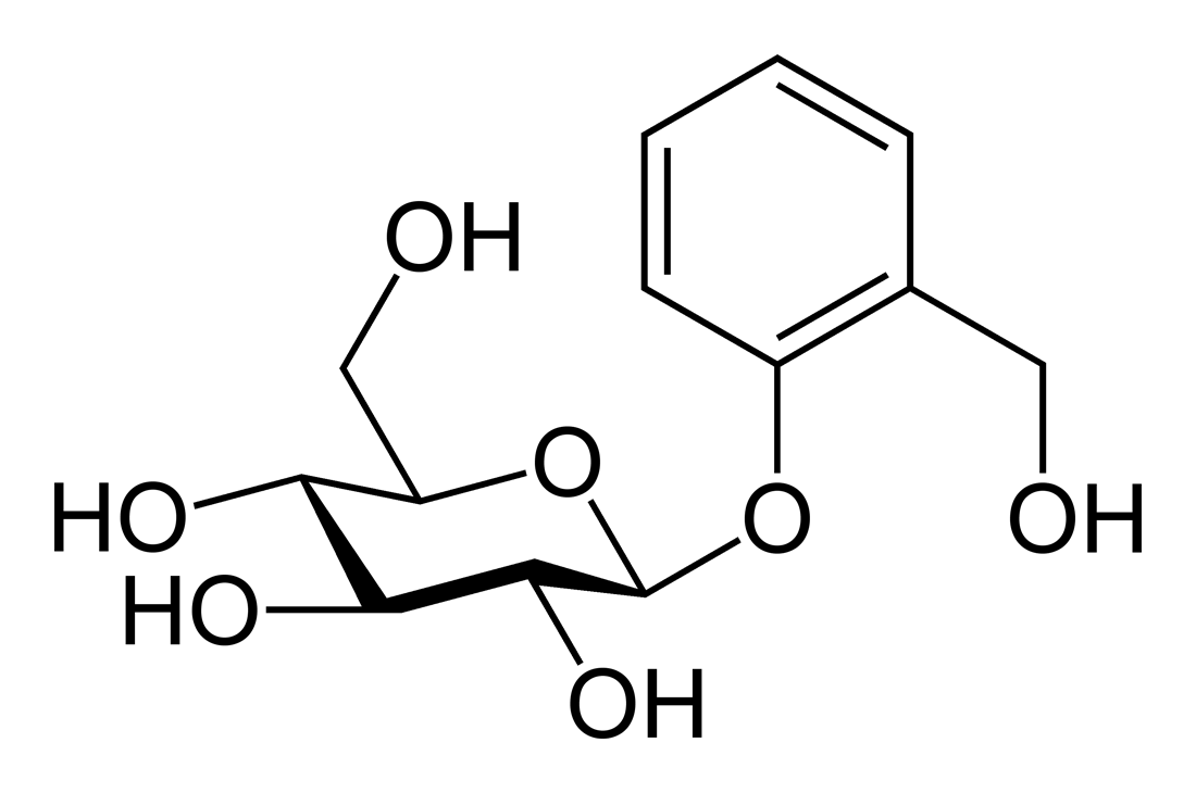 Skeletal formula of salicin, with the glucose part drawn in perspective